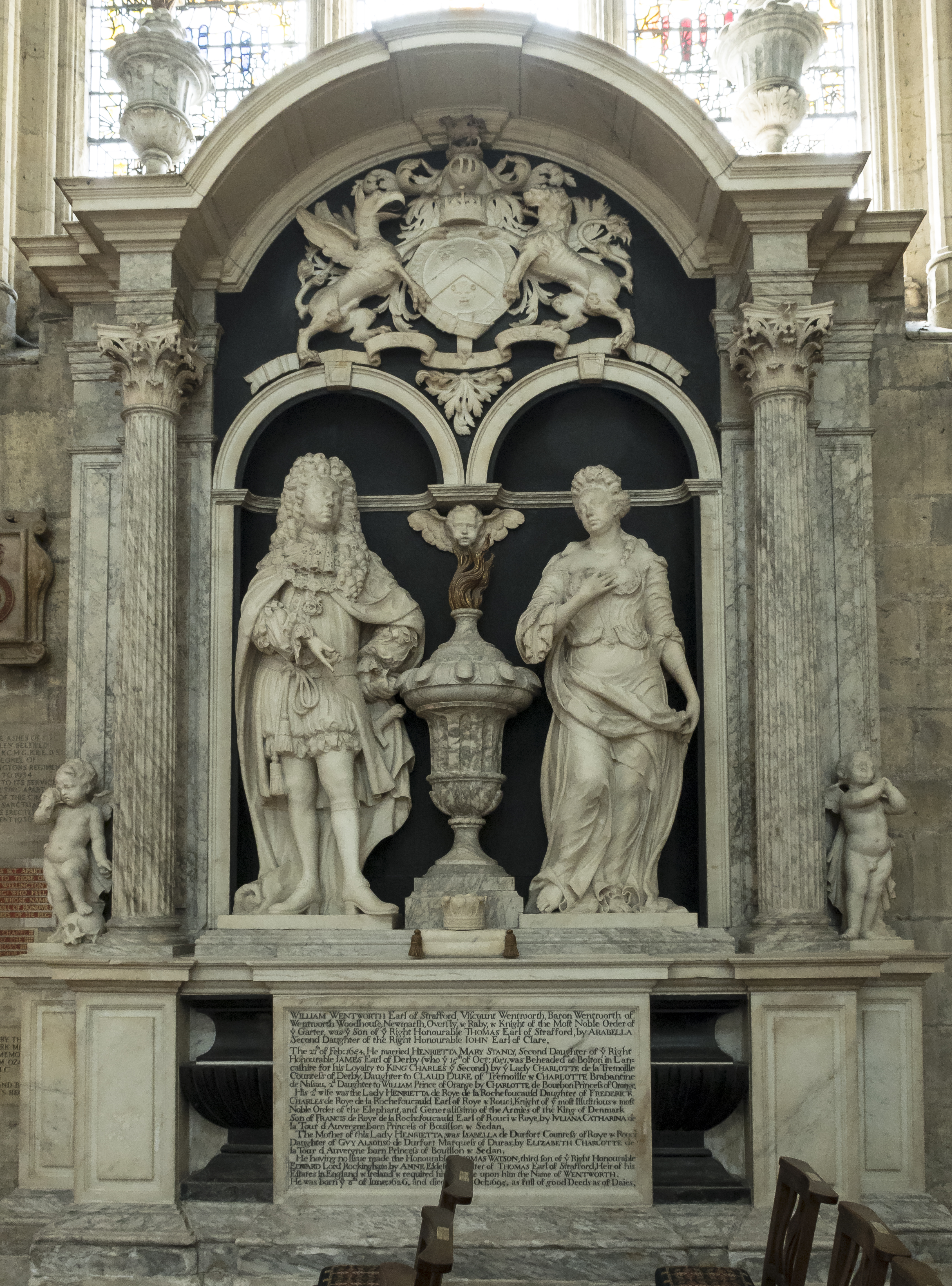 William Wentworth, 2nd Earl of Strafford (1625-1695) and one of his two wives. He left no children. York Minster, sculpted by John van Nost.